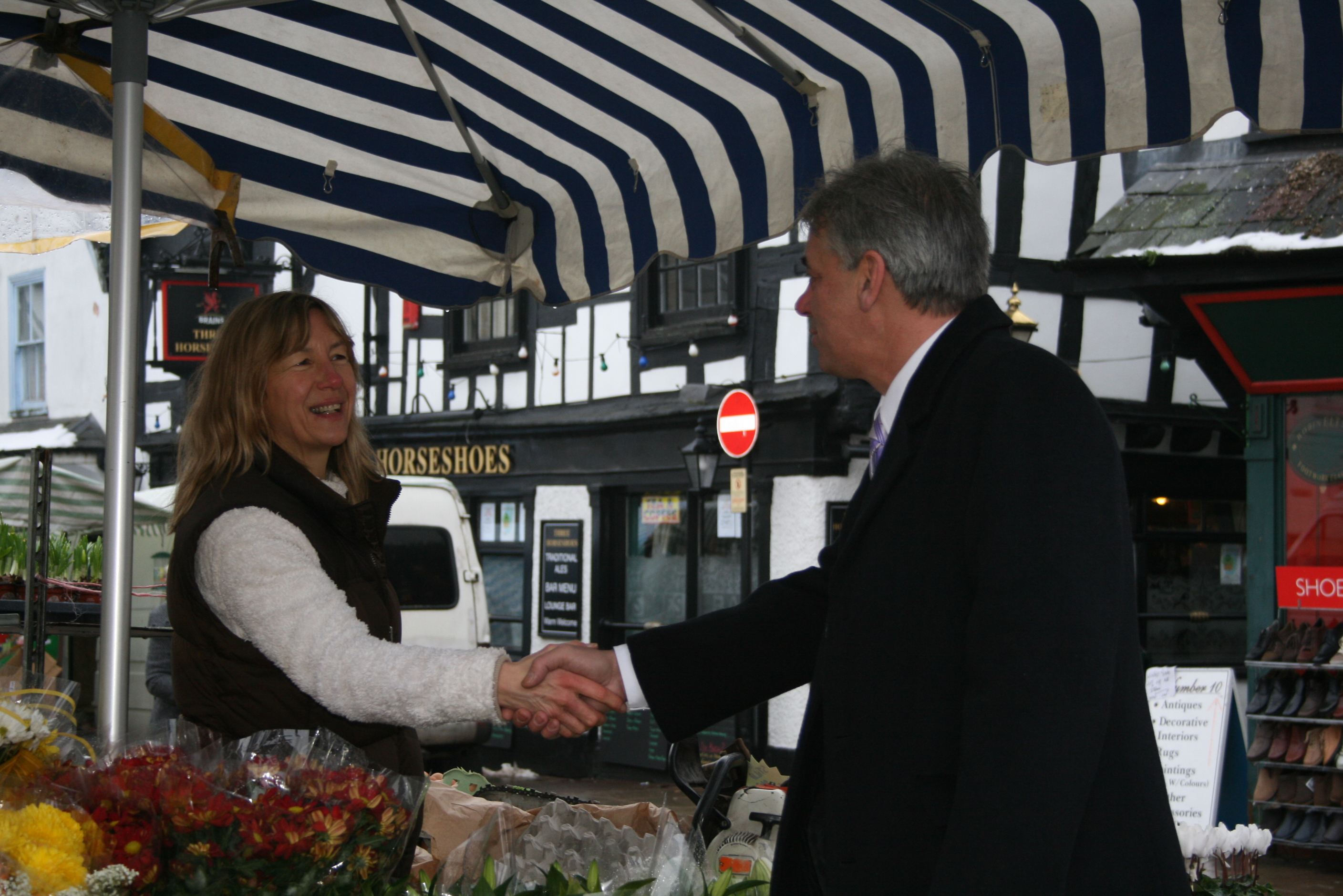 A UKIP PPC during the run up to the 2010 general election